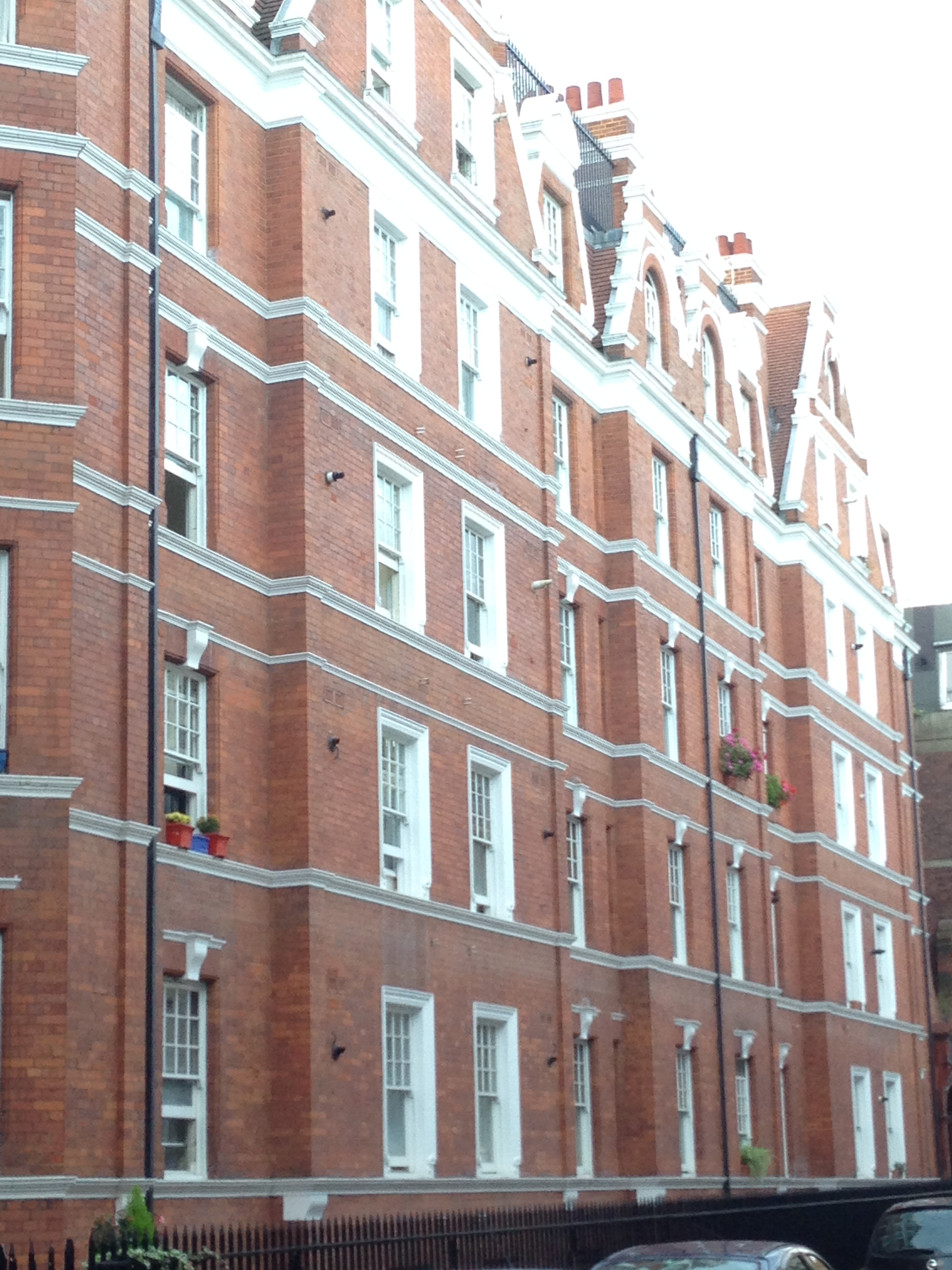 Crawford Buildings, Homer Street, London W1